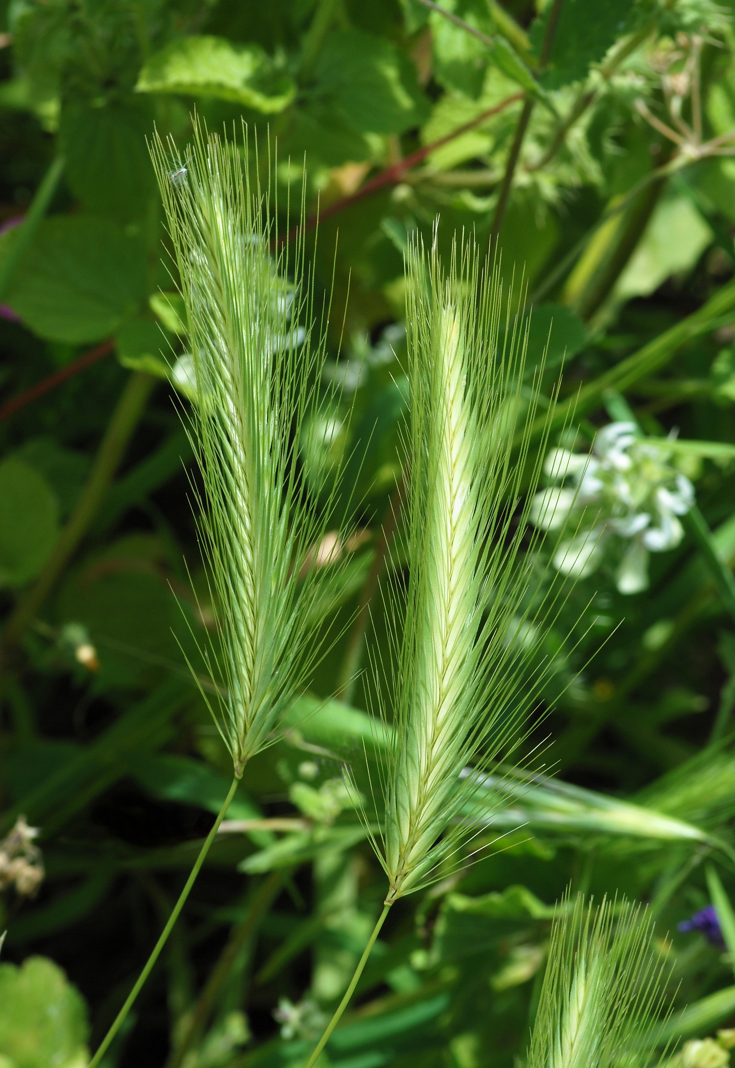 Spike of a Wall Barley (Hordeum murinum)